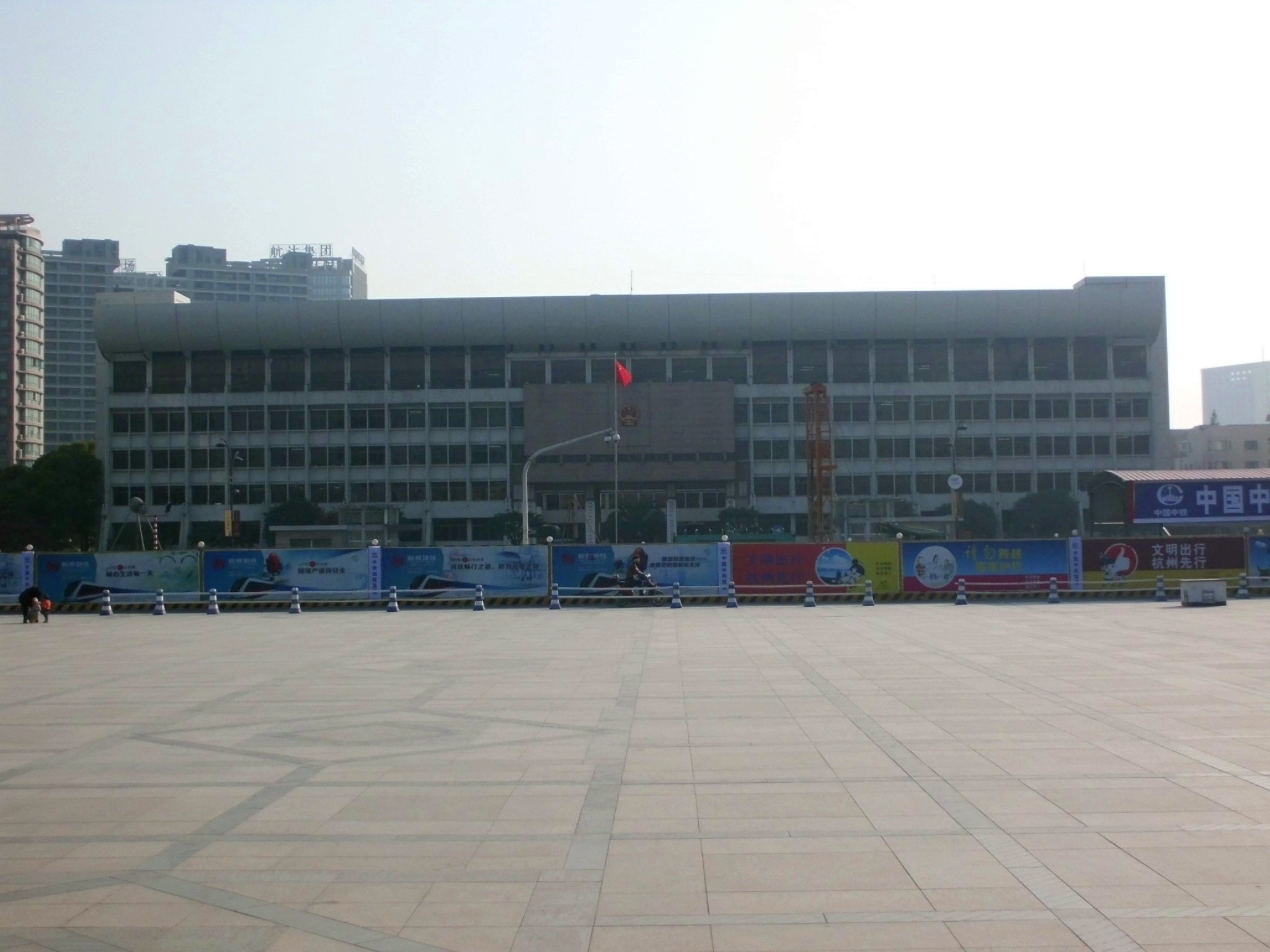 Qingchun Square